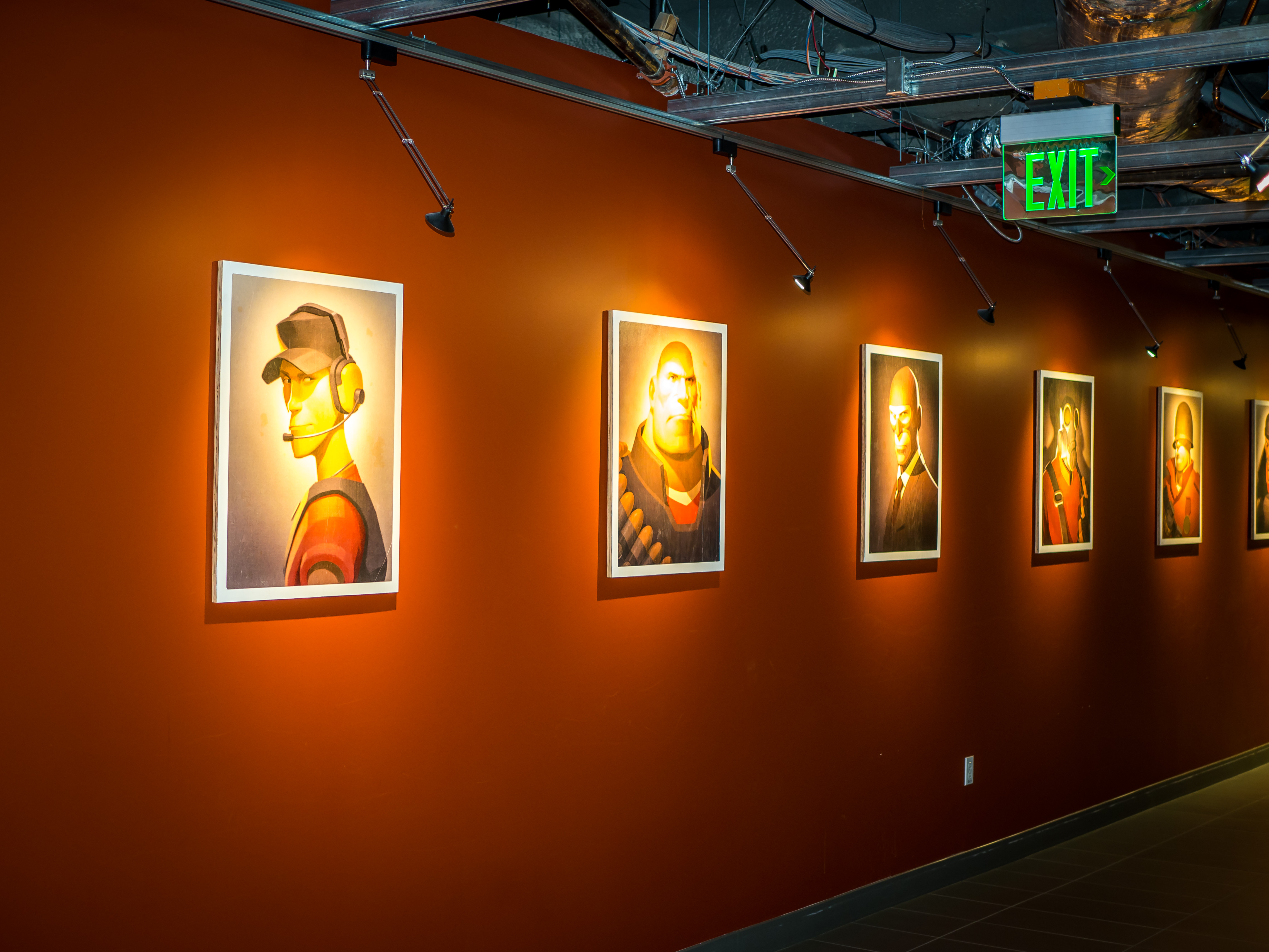 Valve office